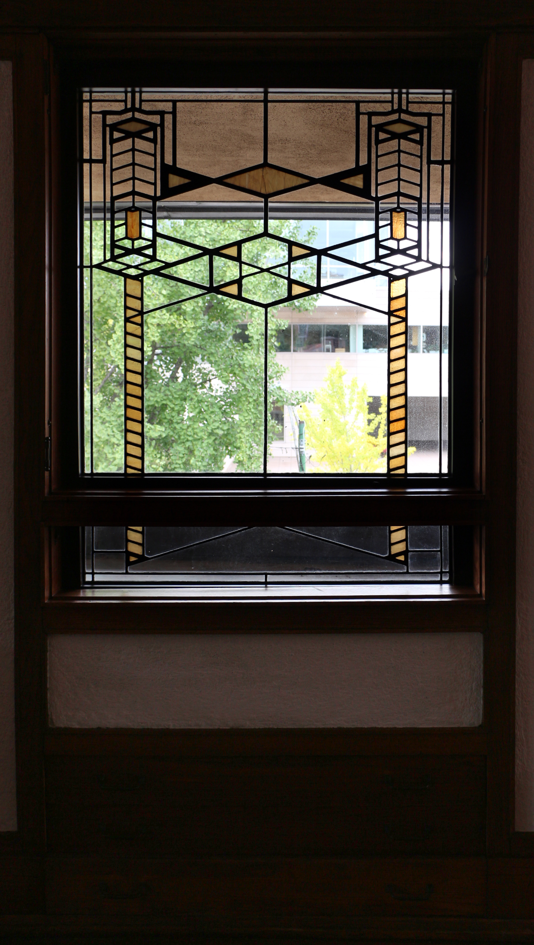 Robie House